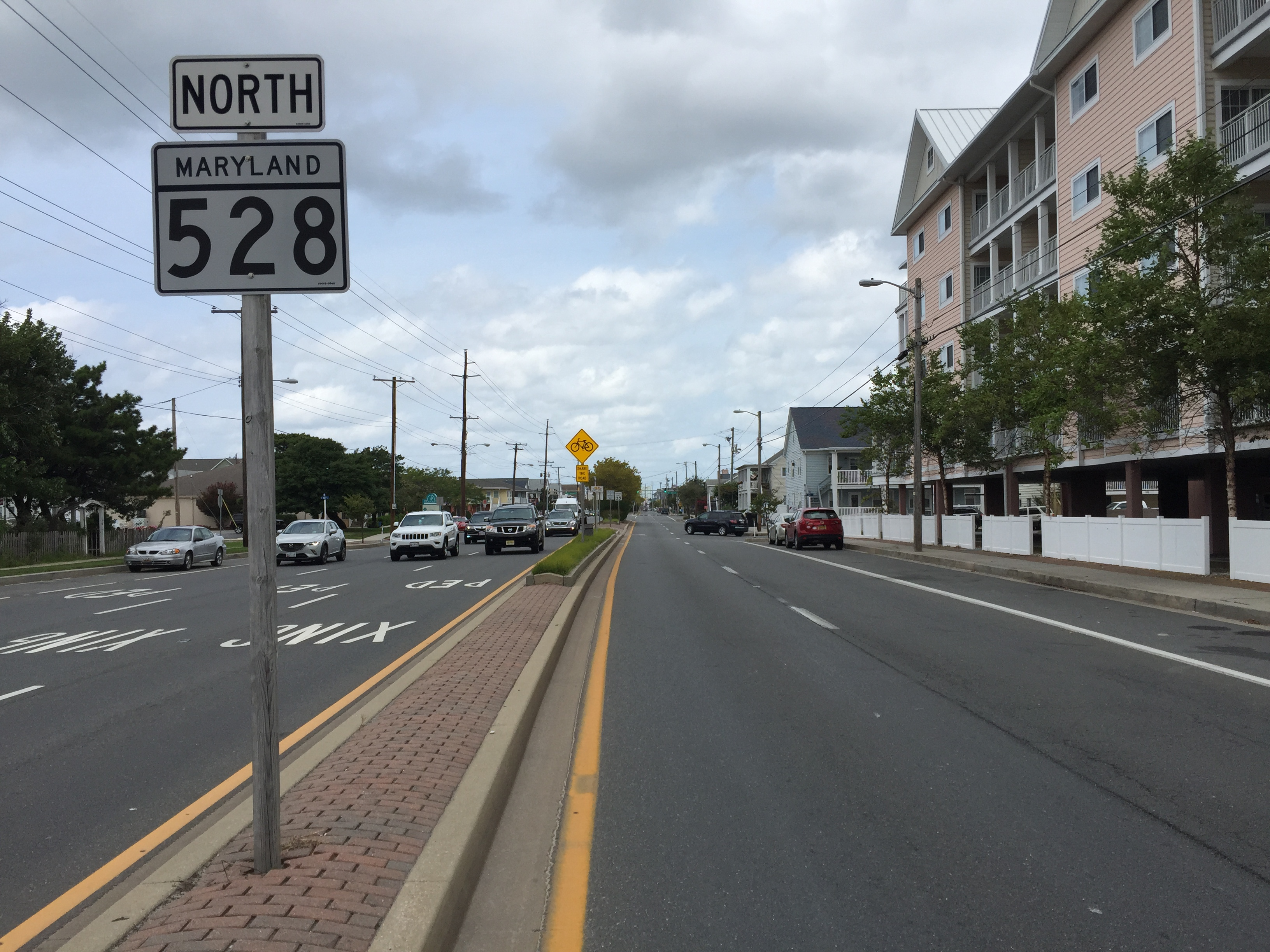 View north along Maryland State Route 528 (Philadelphia Avenue) at Ninth Street in Ocean City, Worcester County, Maryland